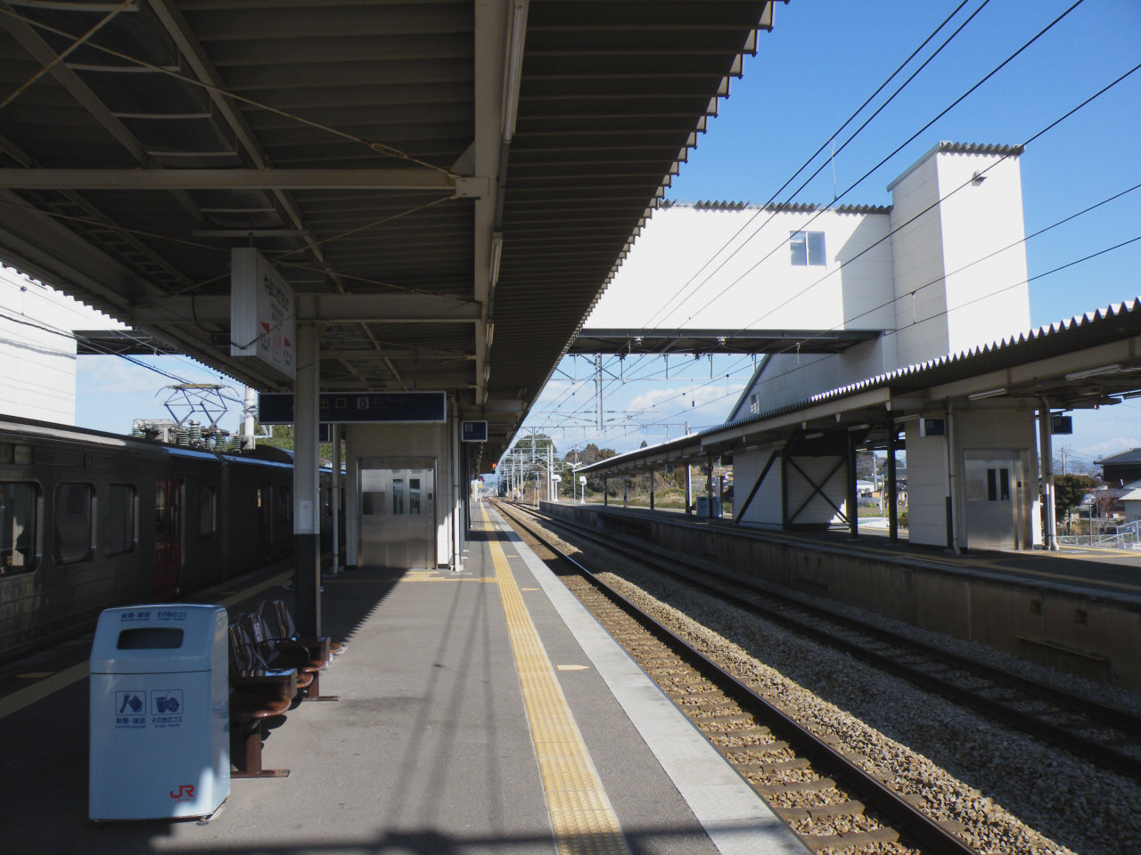 JRKyushu Yayoigaoka Station(Kagoshima Main Line)